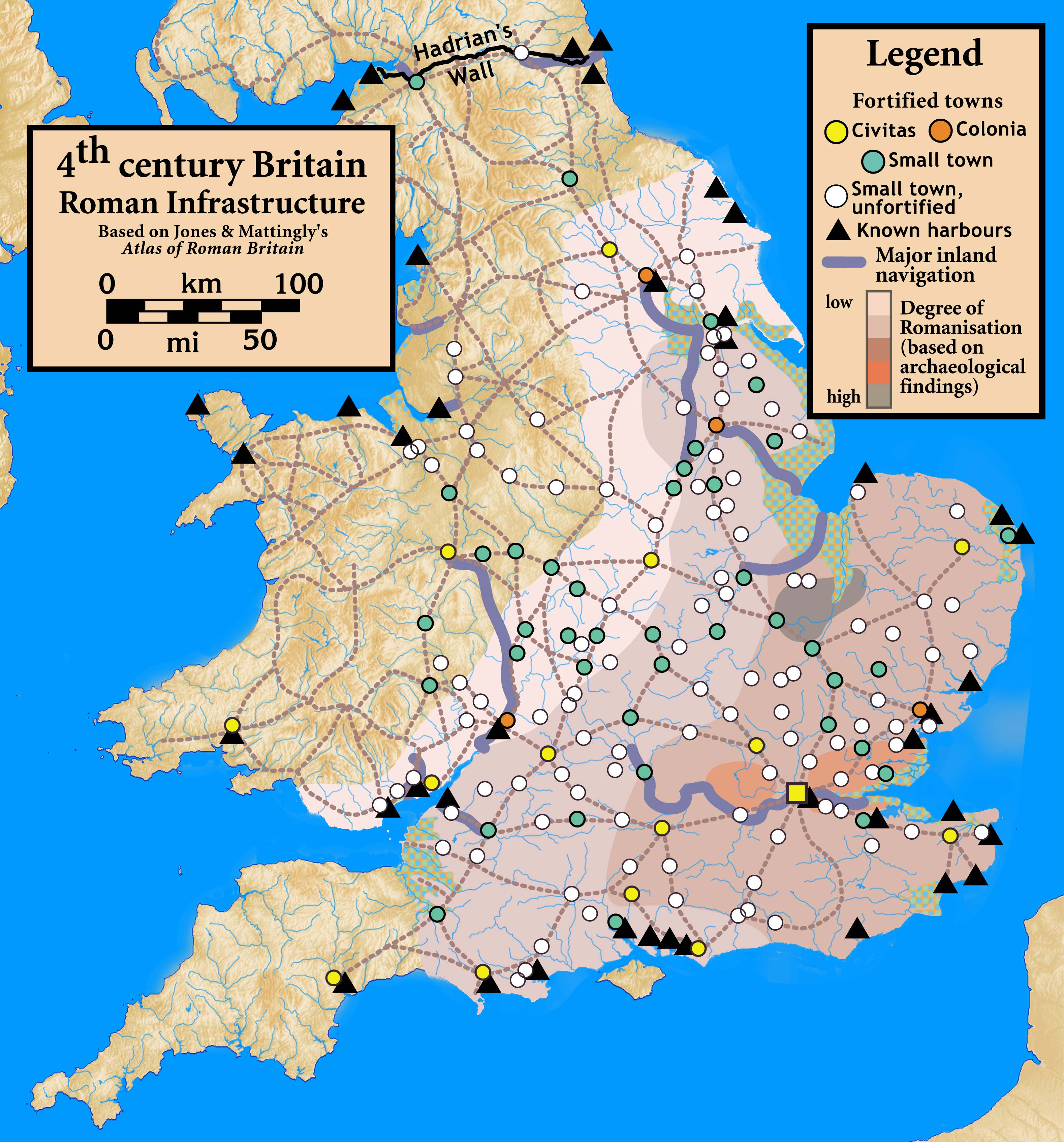 Roman Infrastructure in 4th century Britain